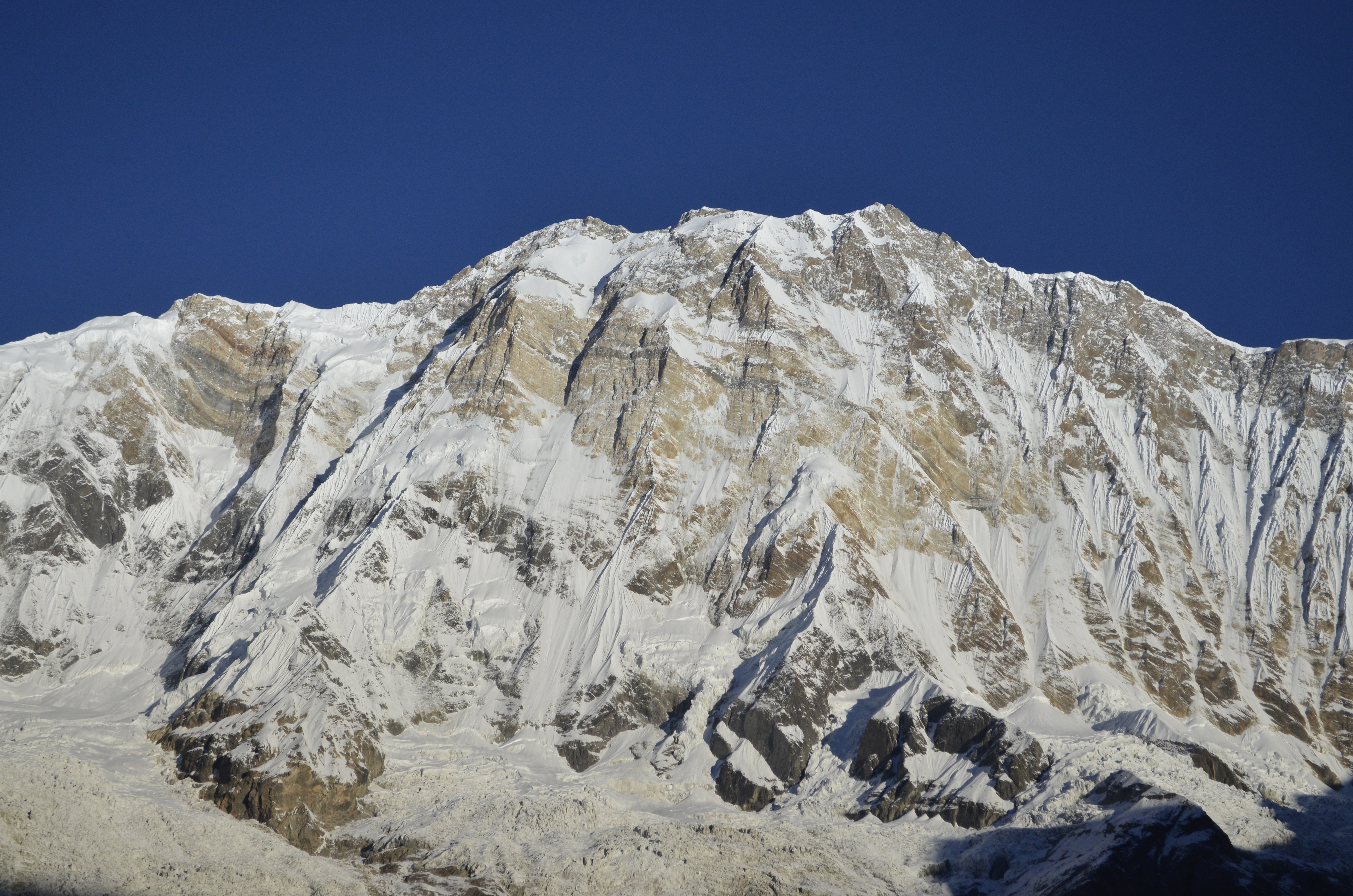 Mt Annapurna